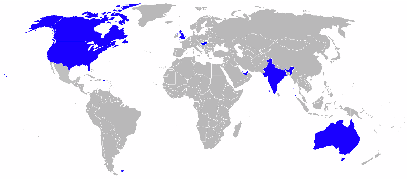 C-17 Globemaster III Operators 2010 (current in blue, future in light blue and former in red)